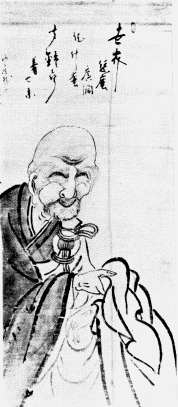 Yunmen Wenyan (aka Ummon Bun'en, Unmon Bun'en 862/4-949). See PNG version for further details.